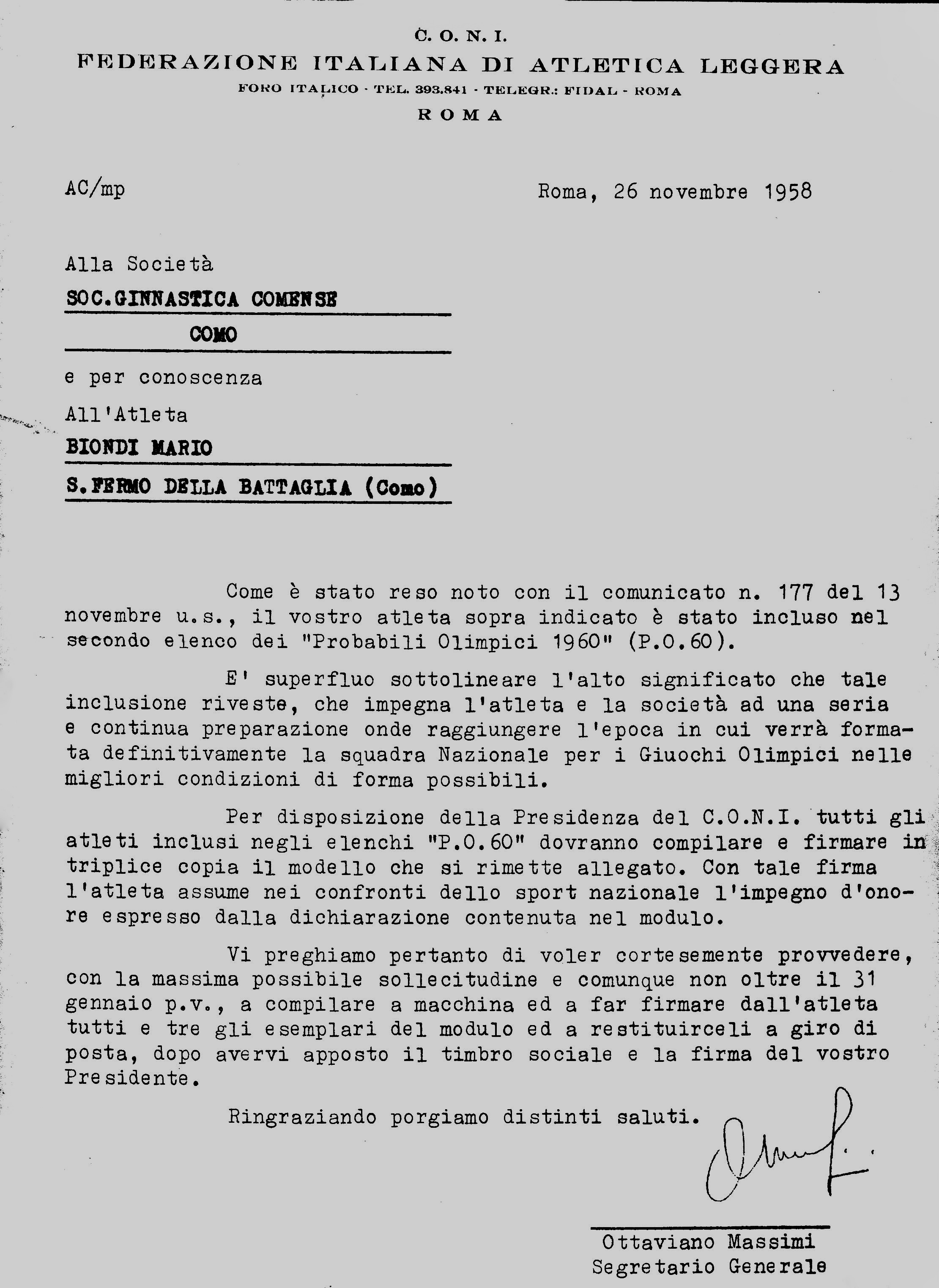 Letter sent in 1958 from CONI (Italian National Olympic Committee) to athlete Mario Biondi (future writer) to summon him for Olympic Games 1960